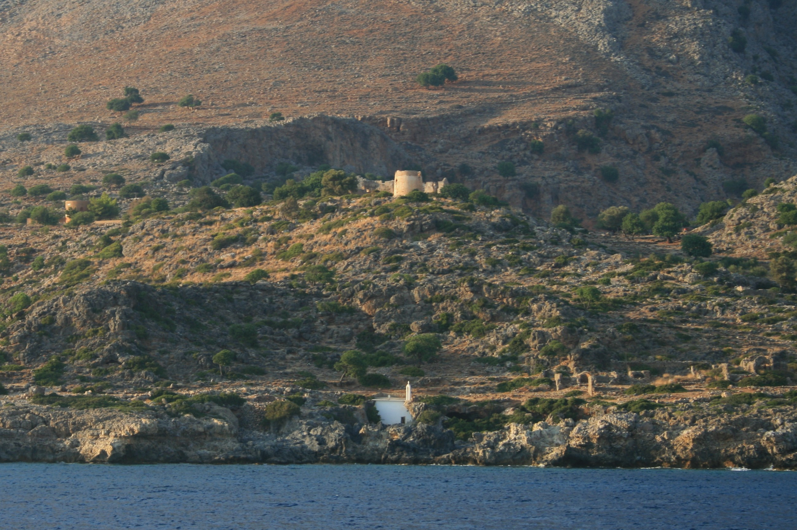 Ruins and the church between Agia Roumeli and Loutro, Crete